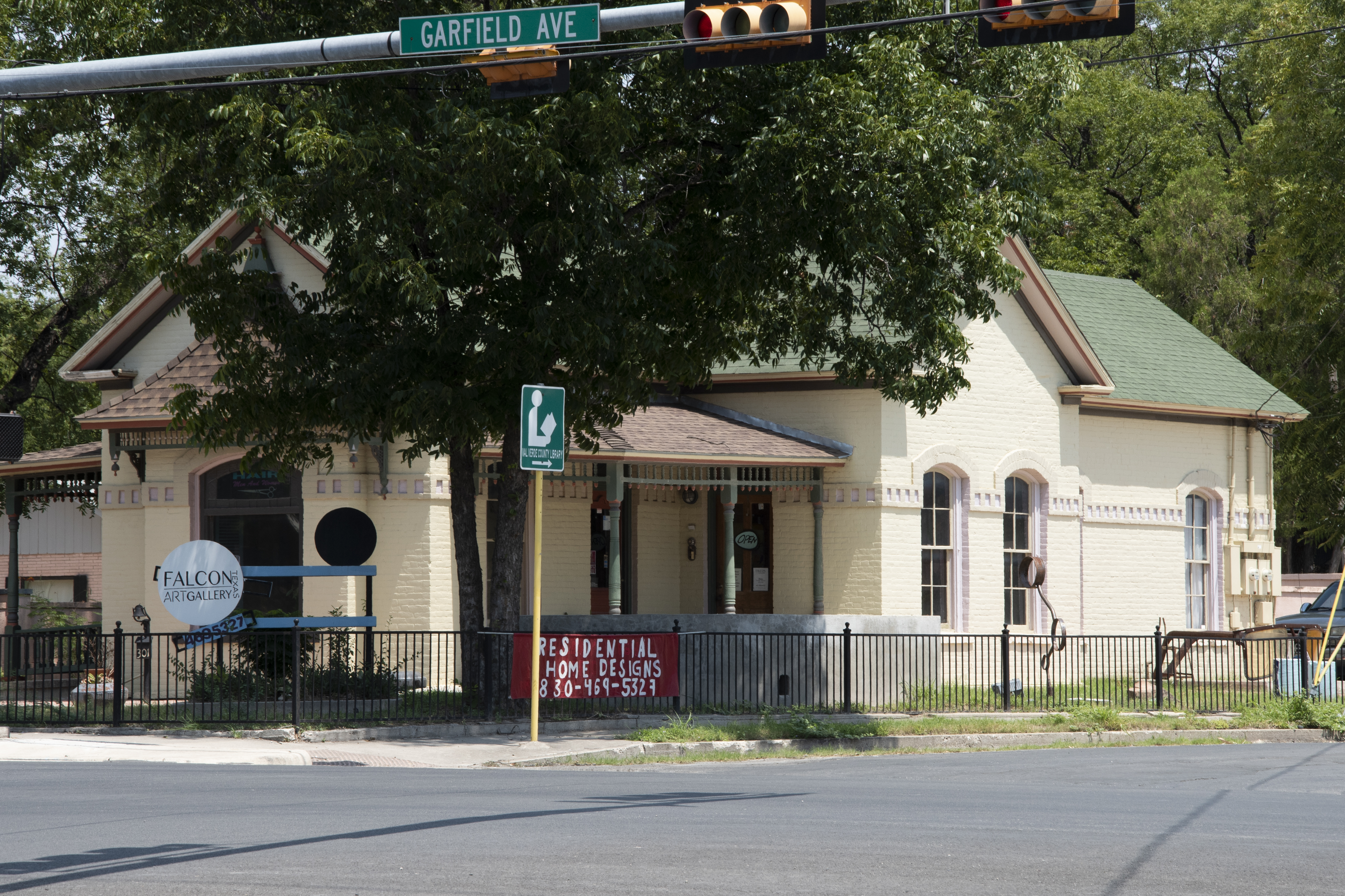 Falcon Art Gallery